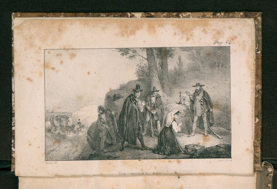 Illustration from Joseph Hippolyte de Santo Domingo, Tablettes napolitaines, 1827.